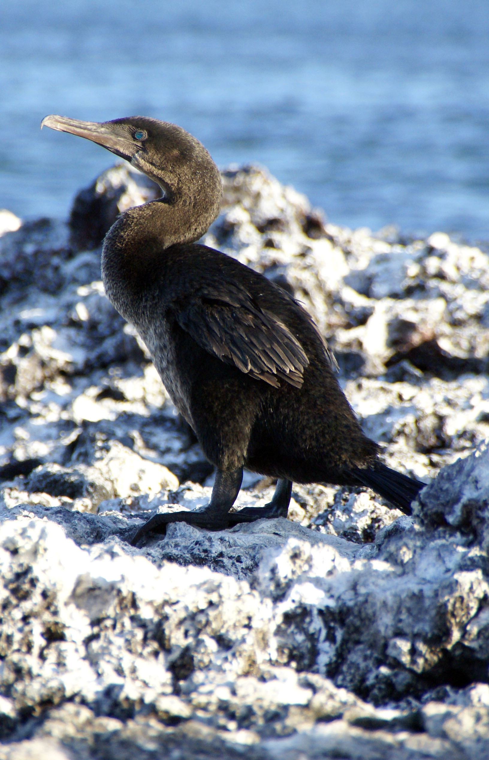 The Flightless Cormorant (Phalacrocorax harrisi), also known as the Galapagos Cormorant, at Elizabeth Bay, Isabela Island.